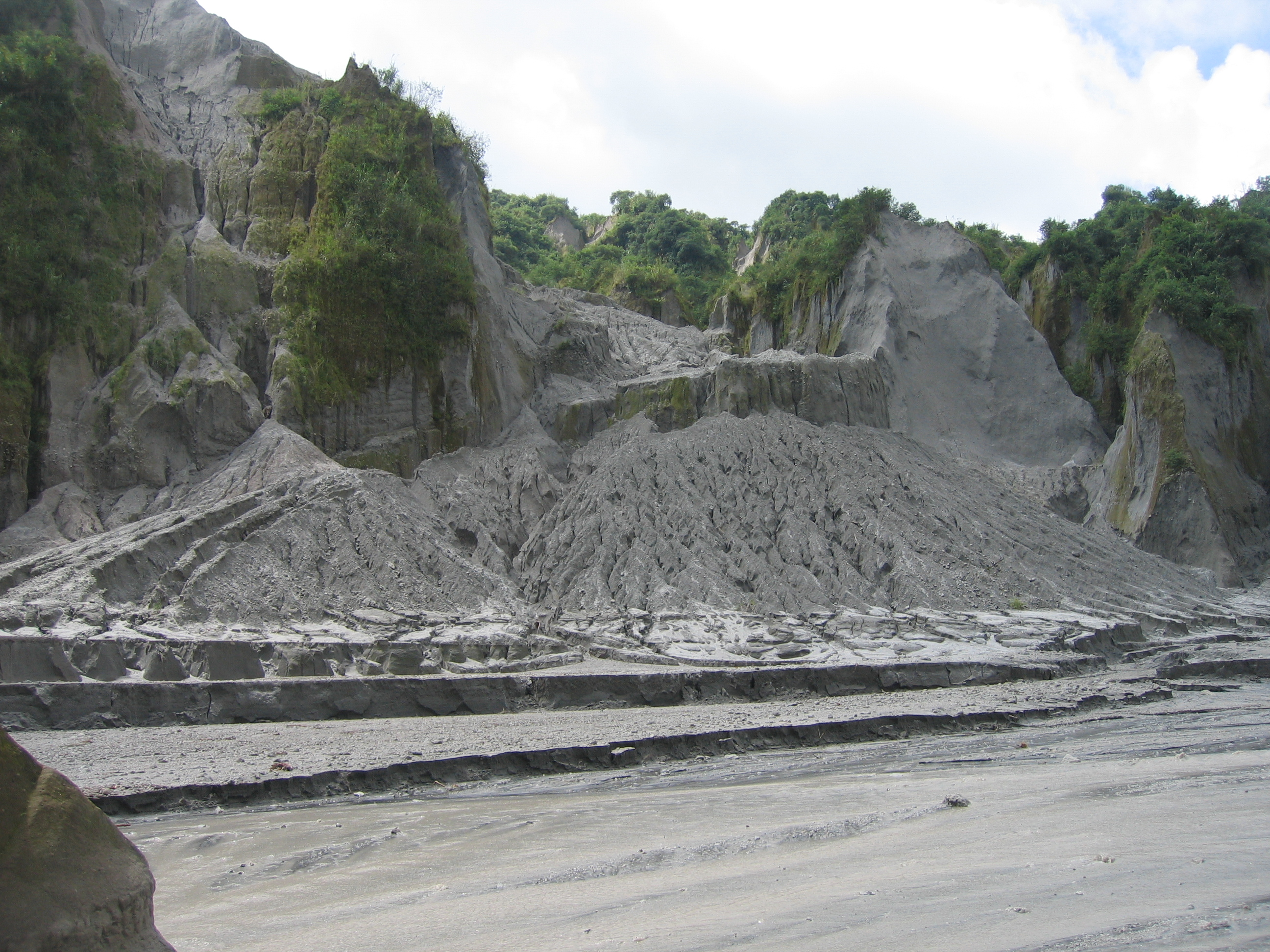 Lahar deposits in canyon on Mount Pinatubo, Luzon, Philippines